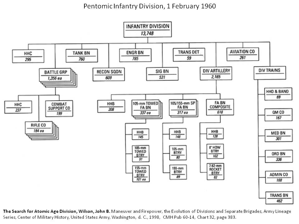 The new Pentomic Division concept was developed by the Army at the end of the 1050's in order to field a Division for the Atomic Age. It is discussed in detail in a Center of Military History work by Wilson, John B. Maneuver and Firepower, the Evolution of Divisions and Separate Brigades, Army Lineage Series